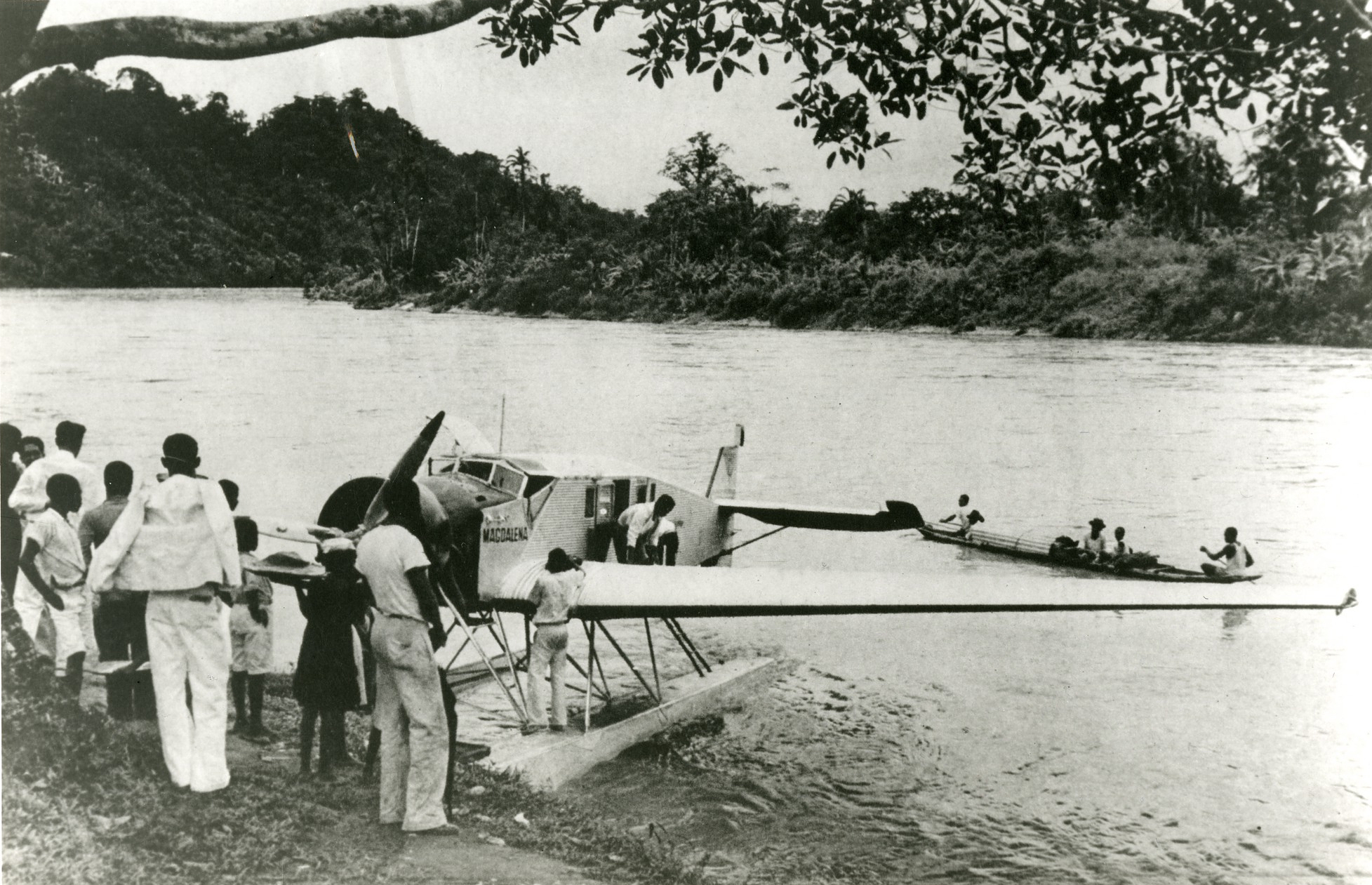 Three-quarter left front view of SCADTA Junkers W 34 "Magdalena" pulled up to a riverbank probably somewhere in Colombia; a small crowd watches from left foreground; a canoe is seen in the river at right midground; circa 1920s.